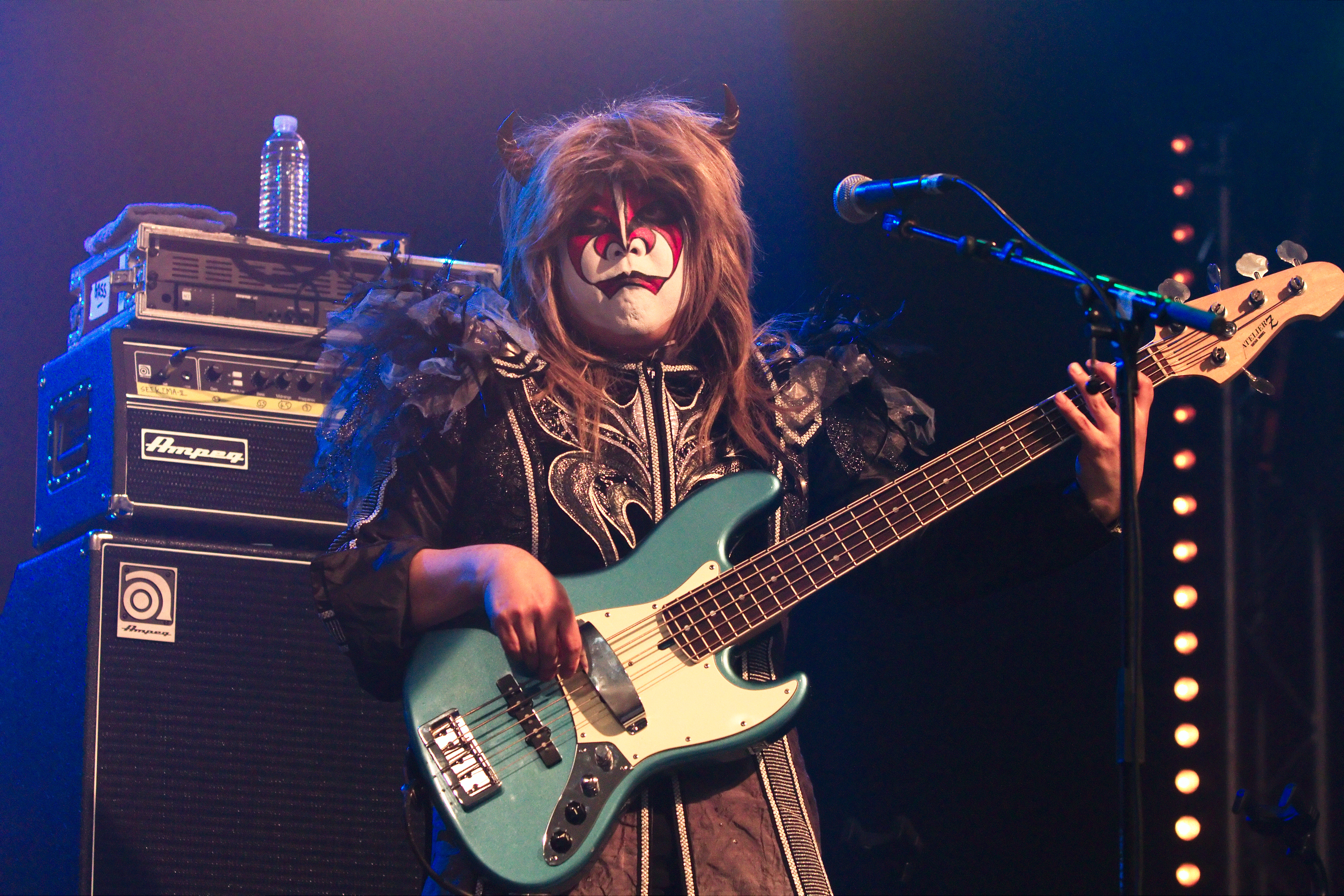 Seikima-II live at Japan Expo 2010 (Paris, France).